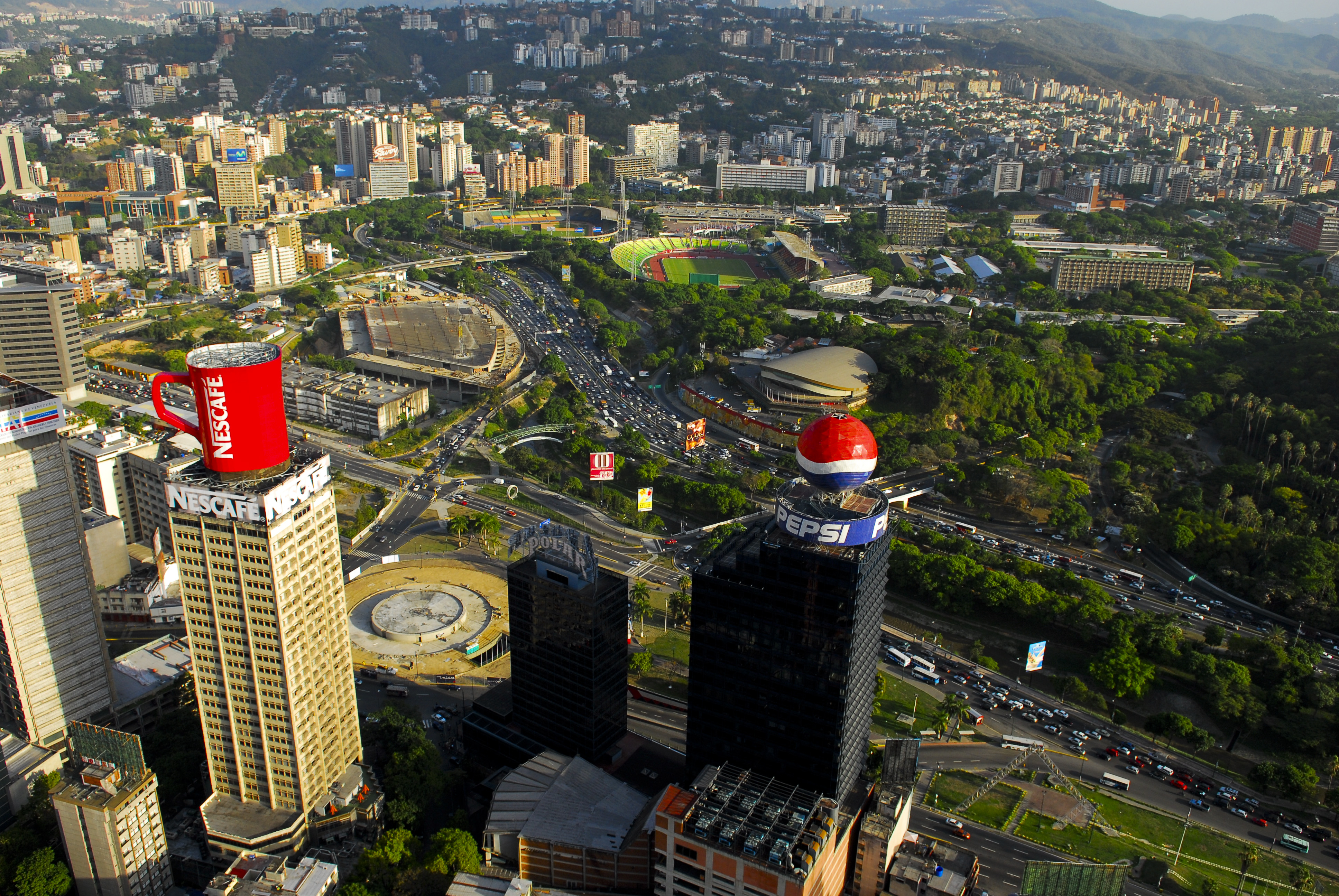 Aerial view from Plaza Venezuela, Caracas.